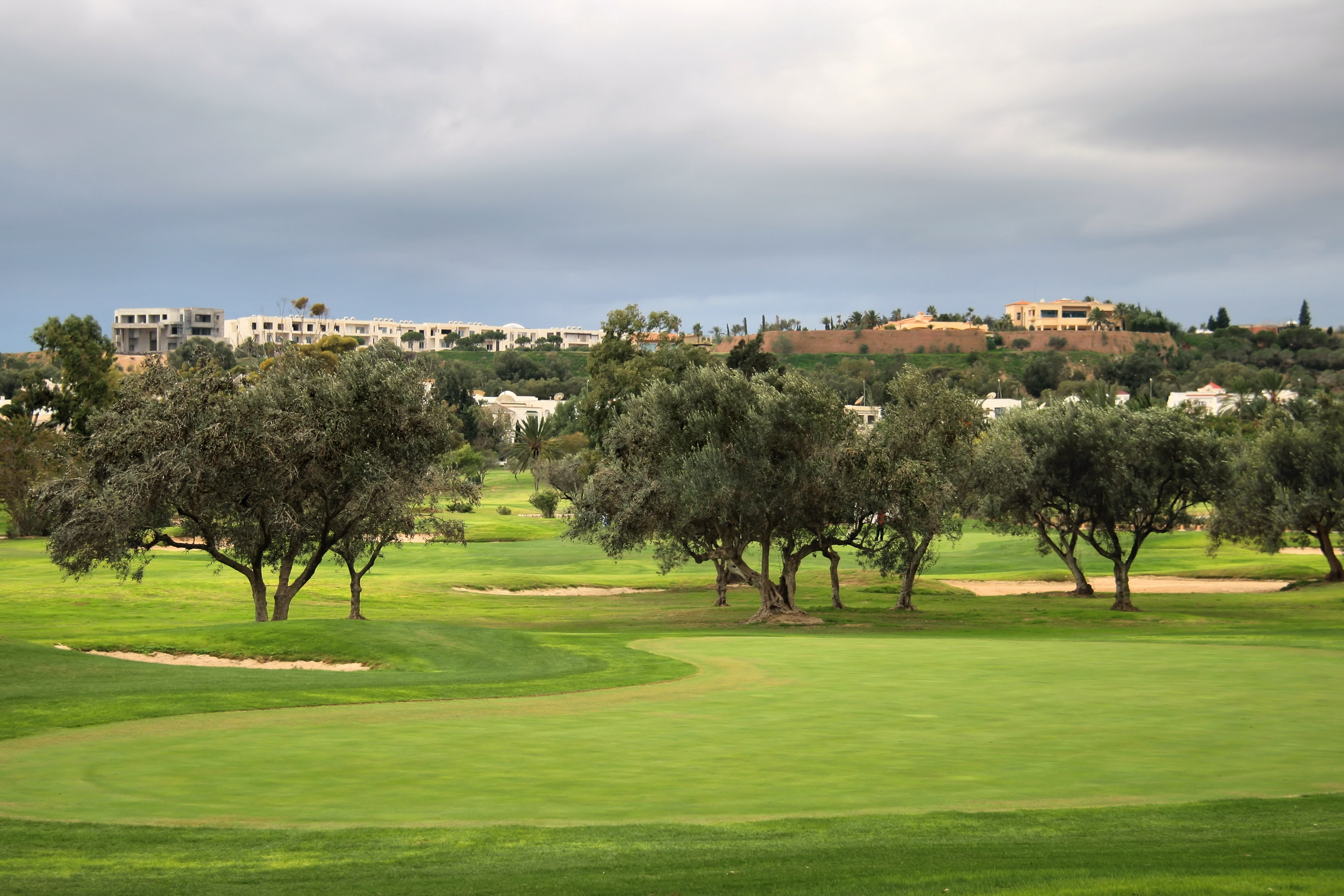 Golf course Port El-Kantaoui (Tunisia)